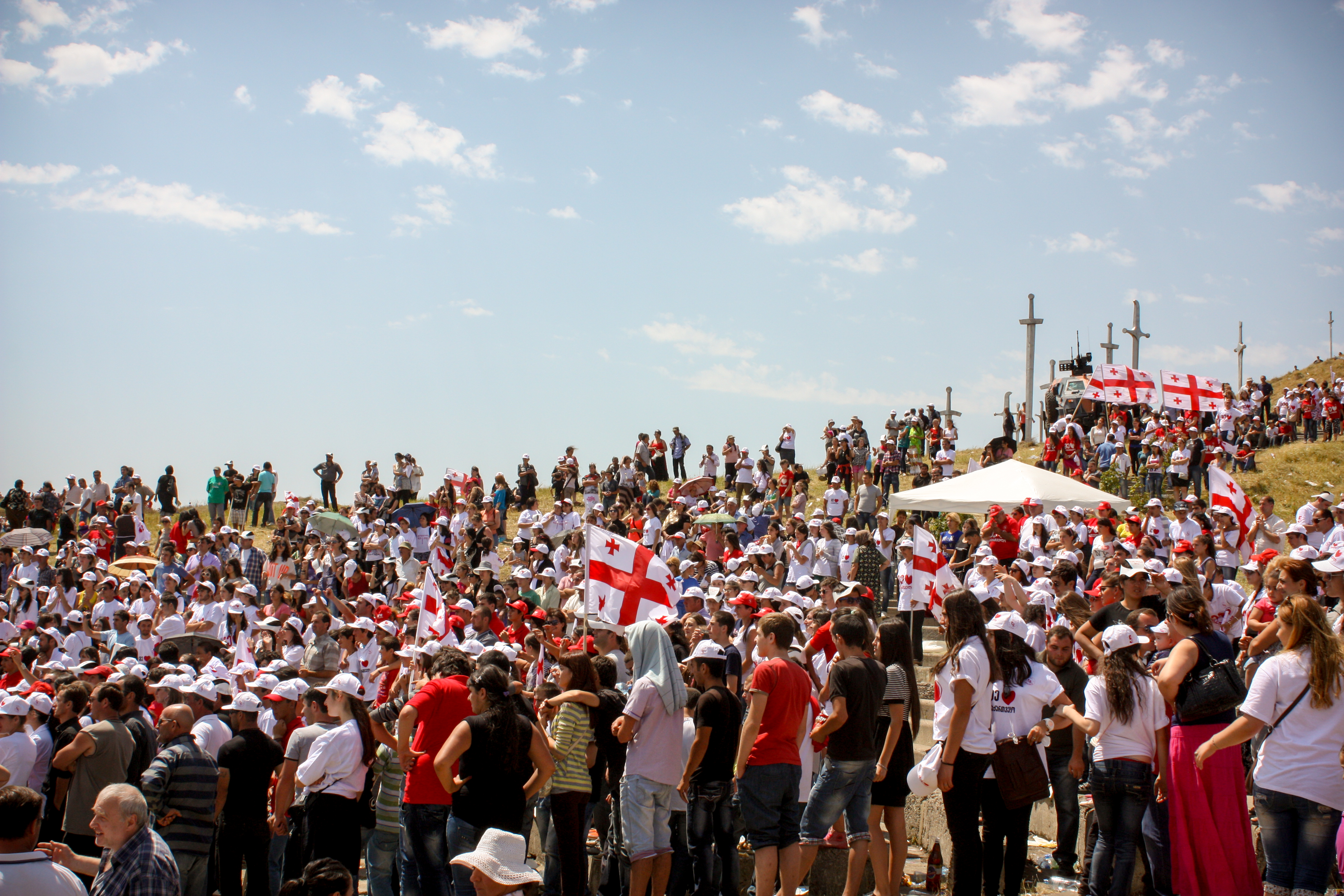 Didgoroba 2012